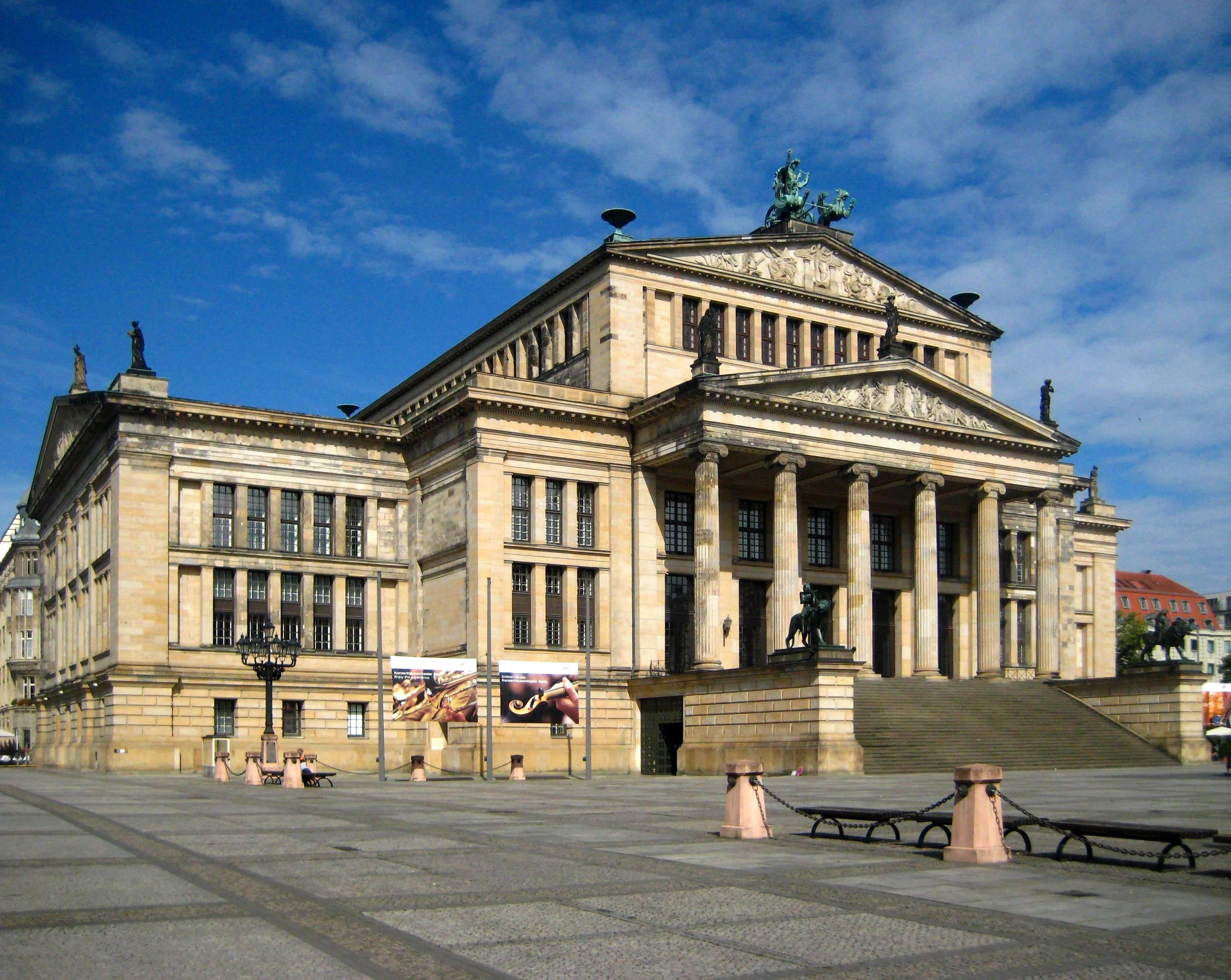 The Concert House at the Gendarmenmarkt in Berlin-Mitte, built 1818 to 1821 by Karl Friedrich Schinkel as Royal Theater.